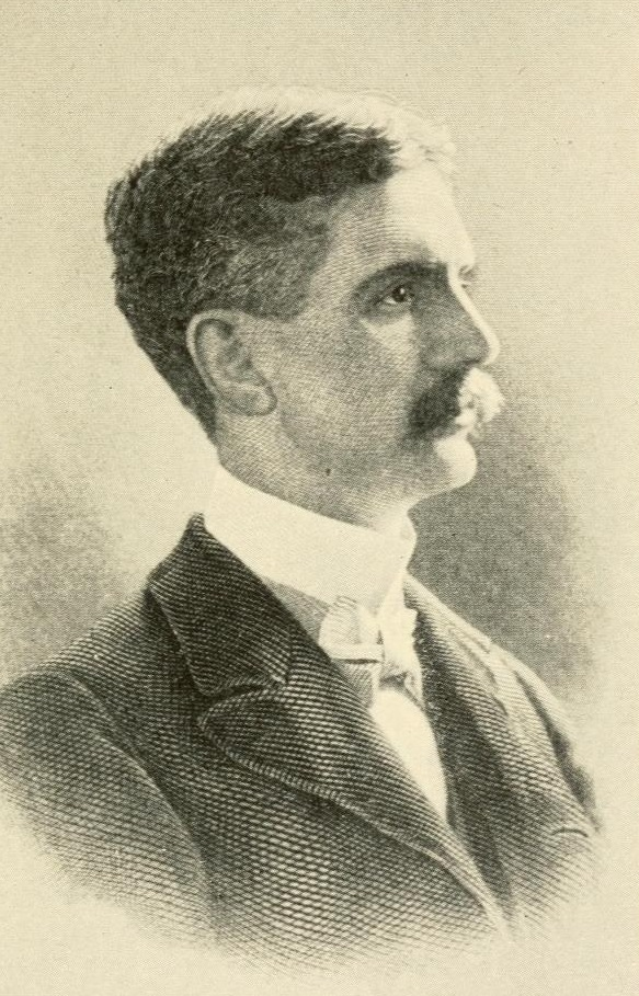 Rufus K. Polk, Congressman from Pennsylvania